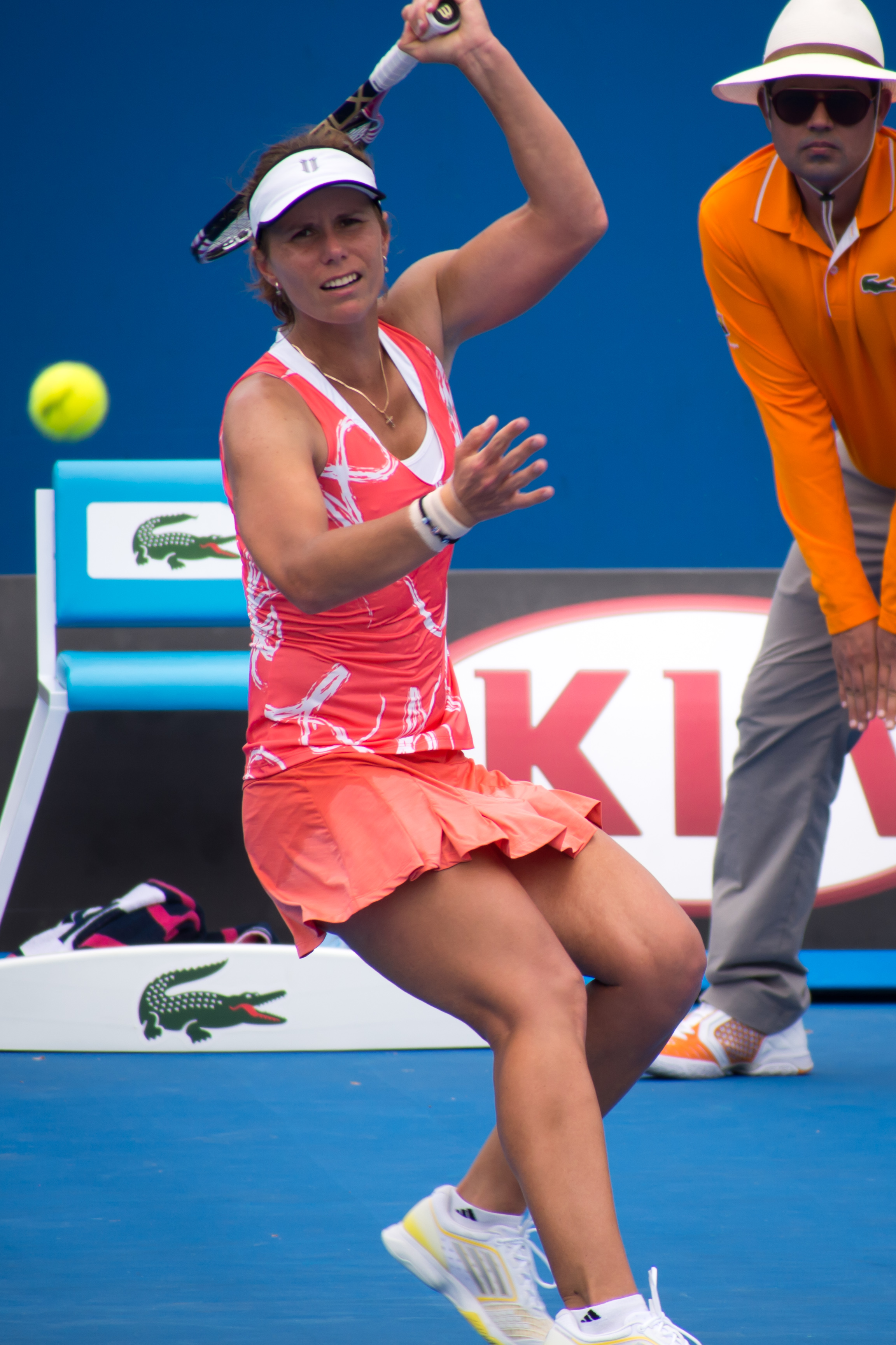 Varvara Lepchenko returns a serve during her straight-sets 2nd round loss to Elena Vesnina. This image was taken at time index 1:48:08 in the match video It was the final point of the match.